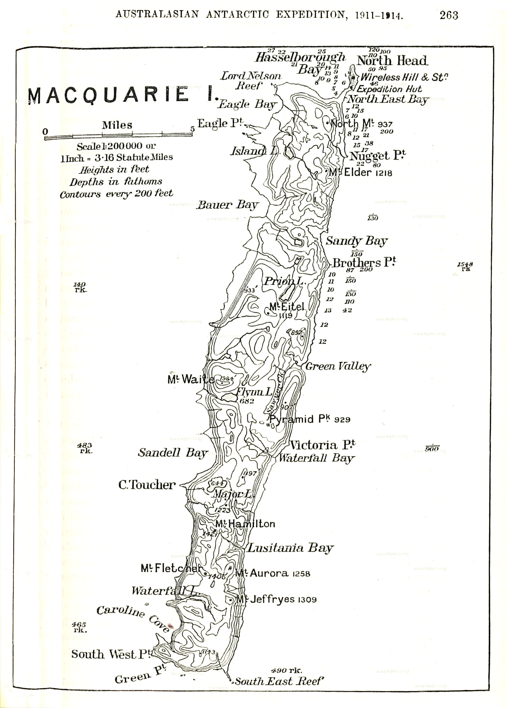 old map of Macquarie Island, Tasmania, Australia